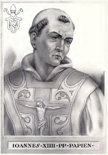 This illustration is from The Lives and Times of the Popes by Chevalier Artaud de Montor, New York: The Catholic Publication Society of America, 1911. It was originally published in 1842.